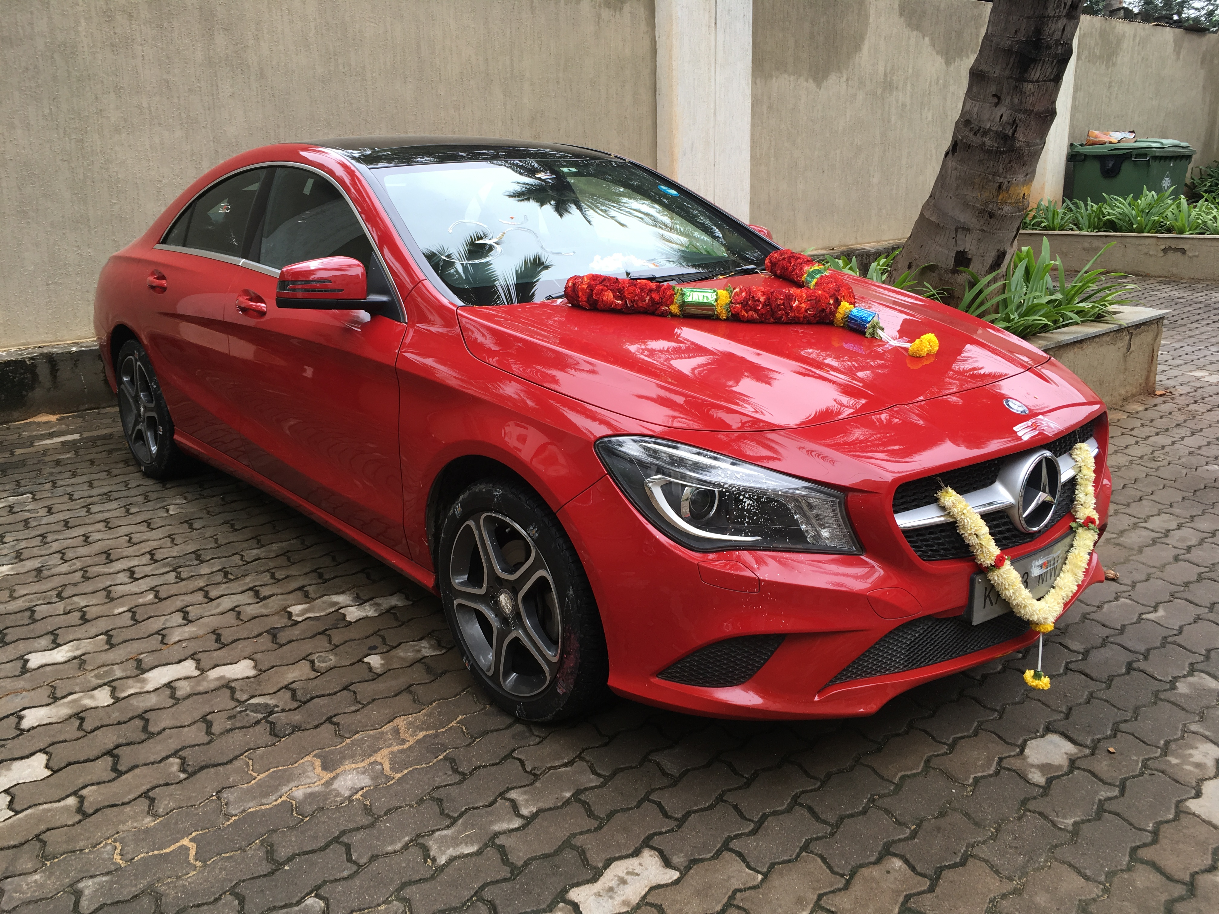 Mercedes-Benz CLA 200 CDI (India)